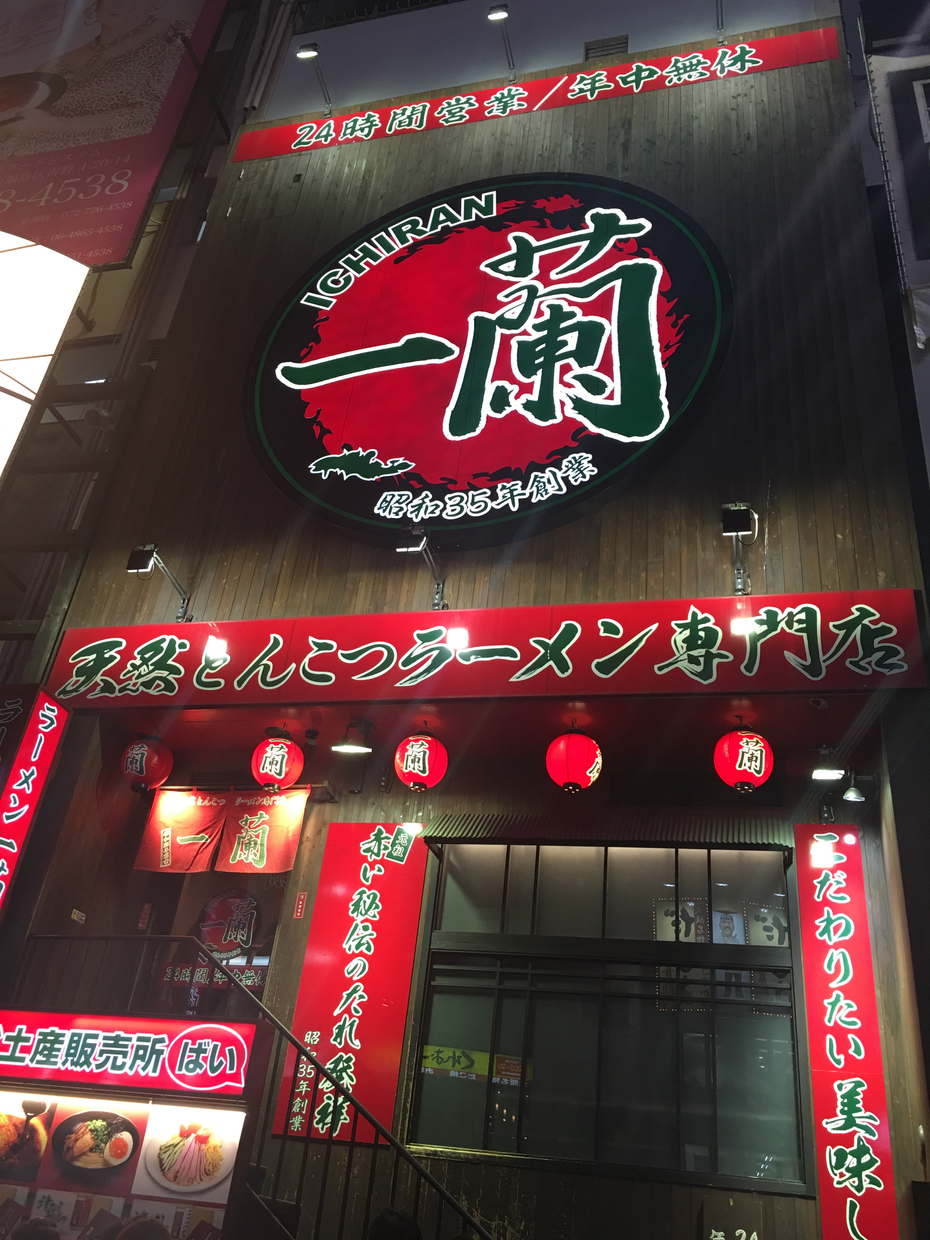 Ichiran ramenin in Dotonbori, Osaka